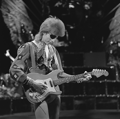 David Bowie, shooting his video for Rebel Rebel in AVRO's TopPop (Dutch television show) in 1974